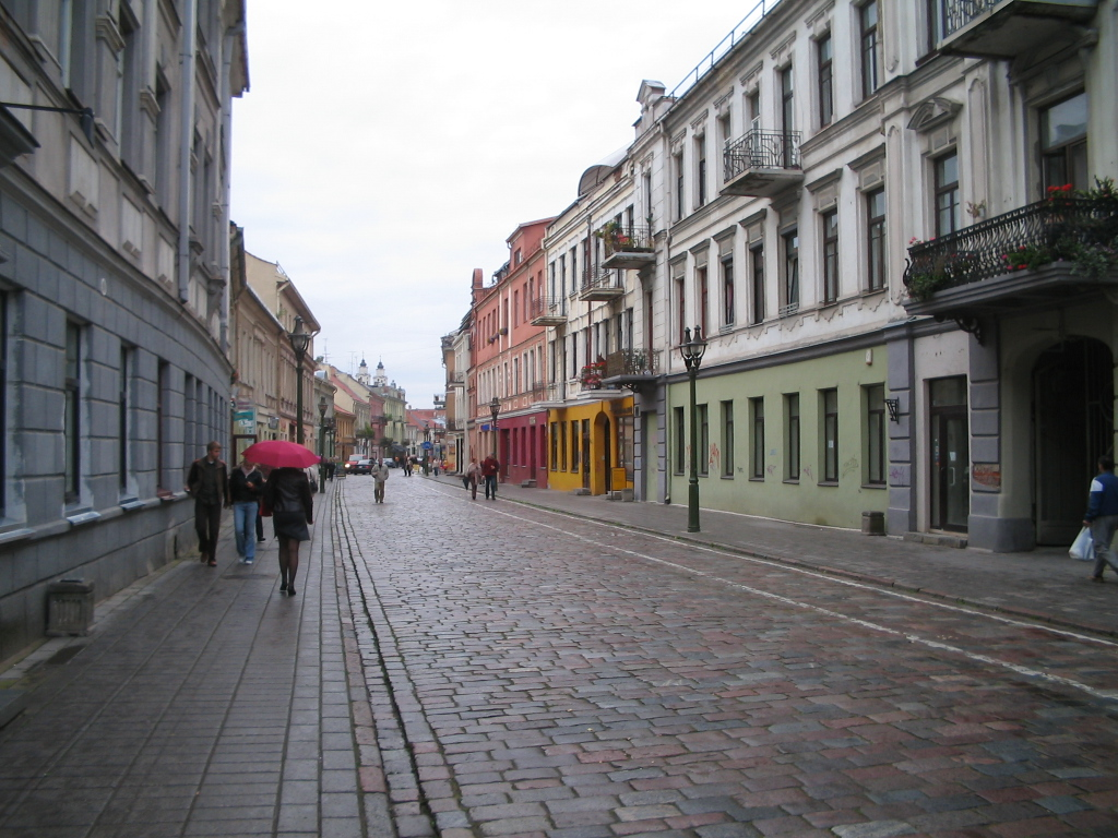 Vilnius Street (Ending), Kaunas (Lithuania).